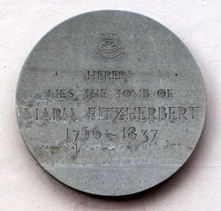 Plaque at tomb of Maria Fitzherbert in Kemp Town, Brighton: photograph taken 9 July 2004. This image has been released into the public domain by the copyright holder, or its copyright has expired. This applies worldwide.